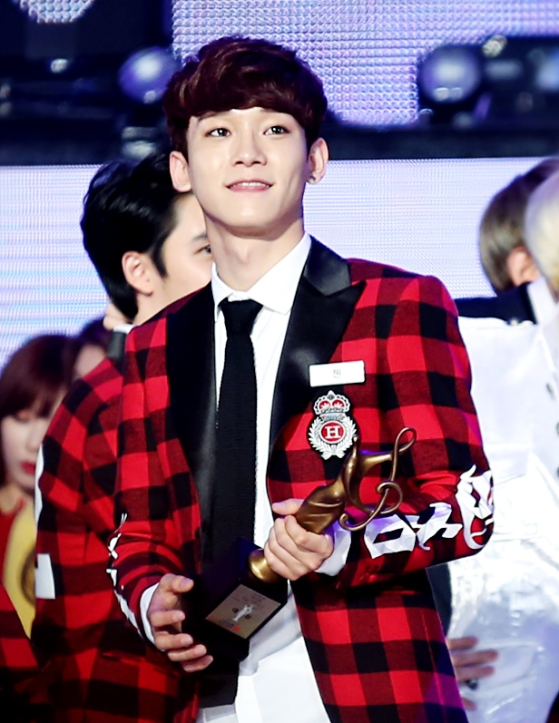 Kim Jong-dae at the Seoul Music Awards on January 23, 2014.